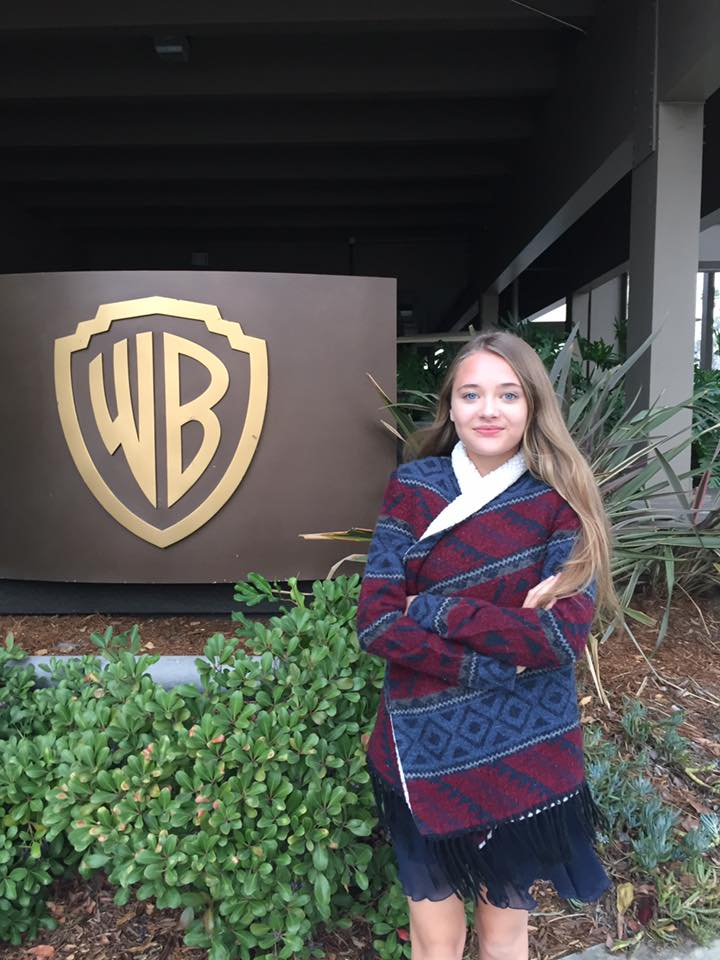 Reylynn Caster outside Warner Brothers, Burbank, California